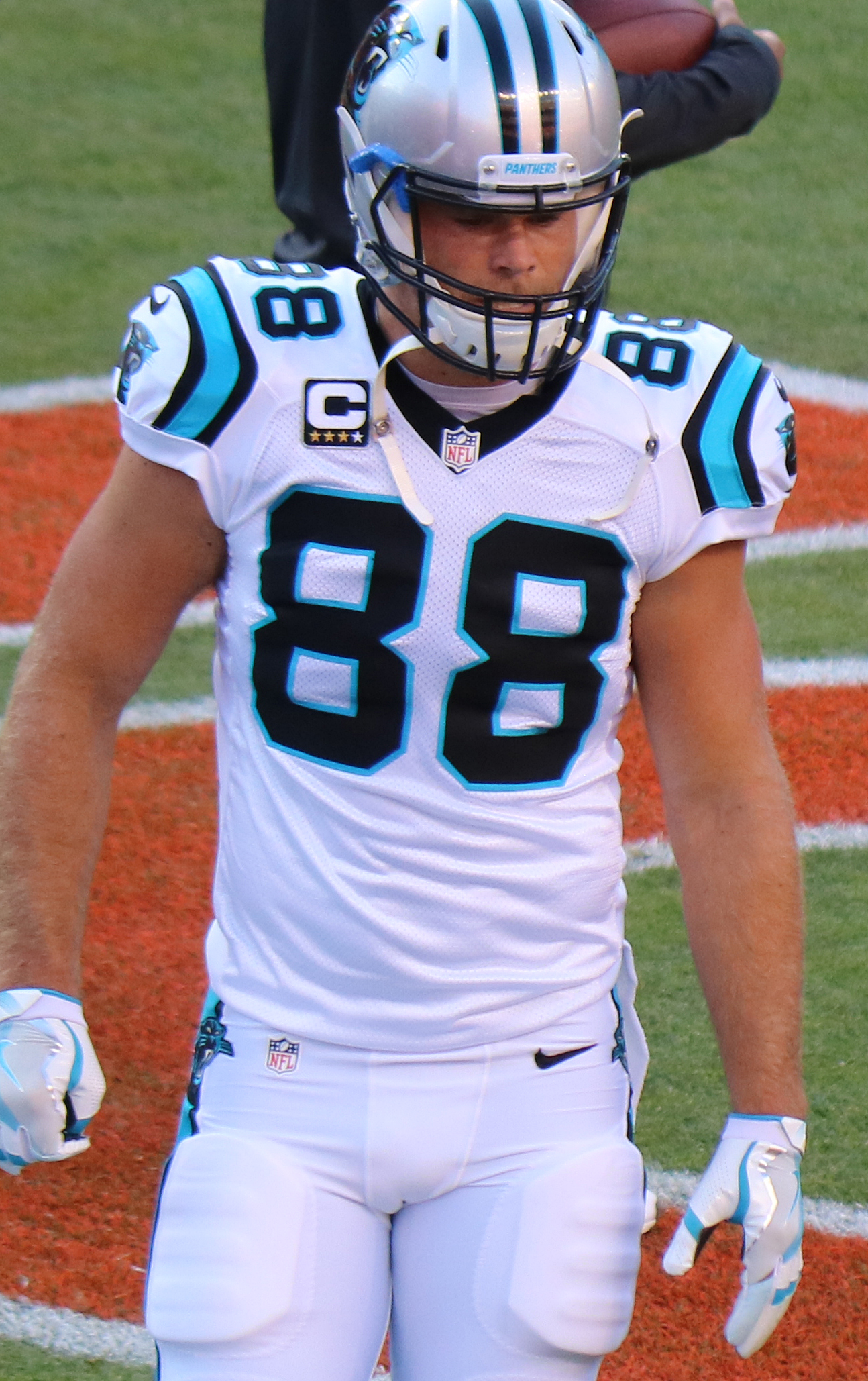 Greg Olsen, a player on the National Football League.